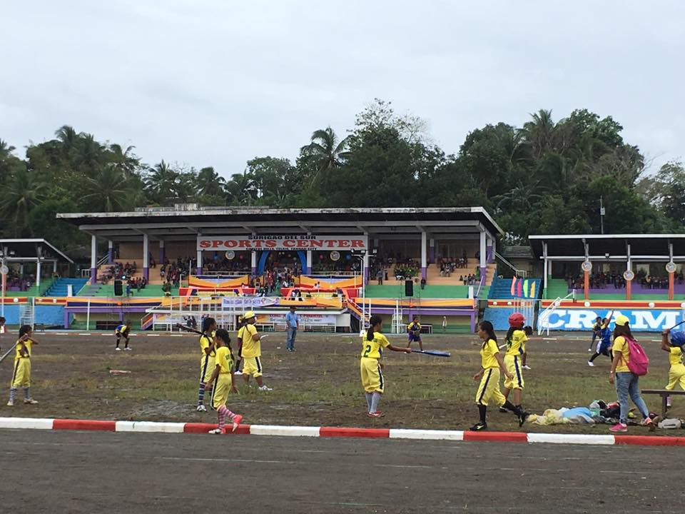 Surigao del Sur Sports Complex as part of the preparation for the 2017 Caraga Regional Athletic Meet lasts Febuary 2017. Owned by PIA Surigao del Sur and it is public domain.